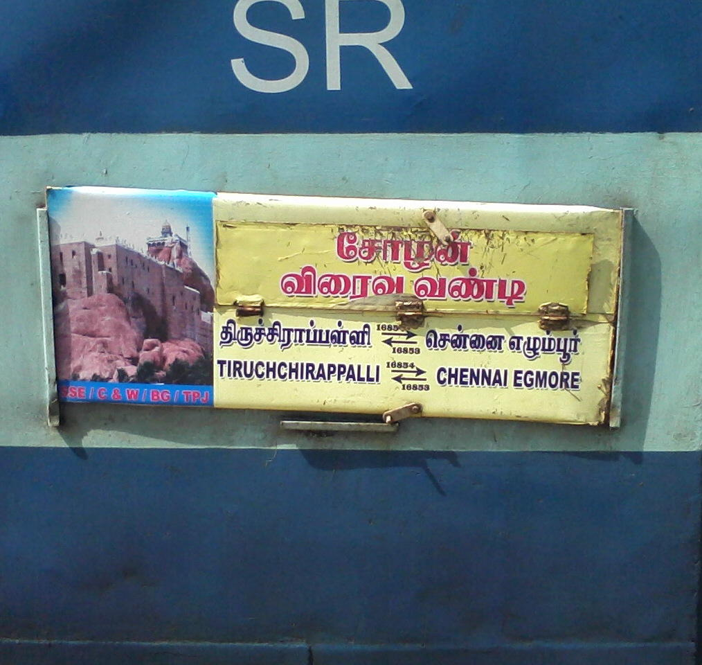 The Board of Cholan express